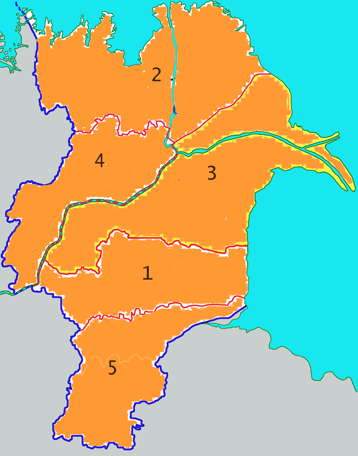 Municipalities of Dongying city in Shandong province, China